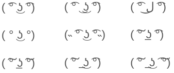 Example of kaomoji